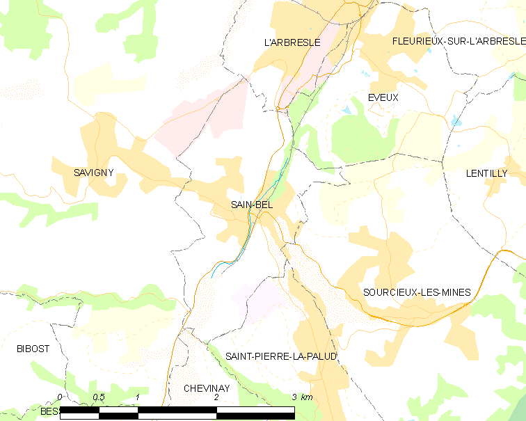 Map of French municipality